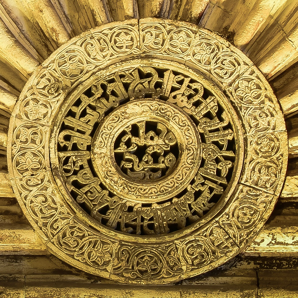 Al-Jam`e Al-ِAqmar or Al-Aqmar Mosque, also called Gray mosque, is a mosque in Cairo, Egypt dating from the Fatimid era. It was built under vizier al-Ma'mun al-Bata'ihi during the caliphate of Imam Al-Amir bi-Ahkami l-Lah.